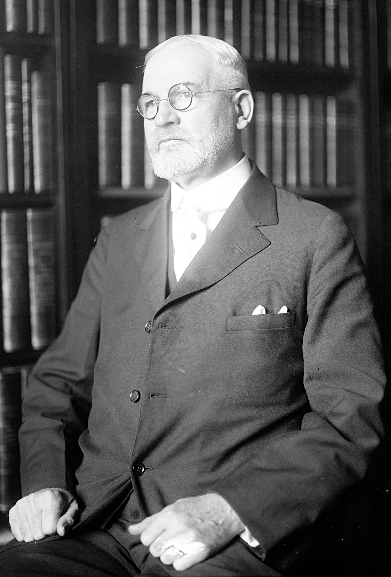 Archie D. Sanders, US Representative from New York